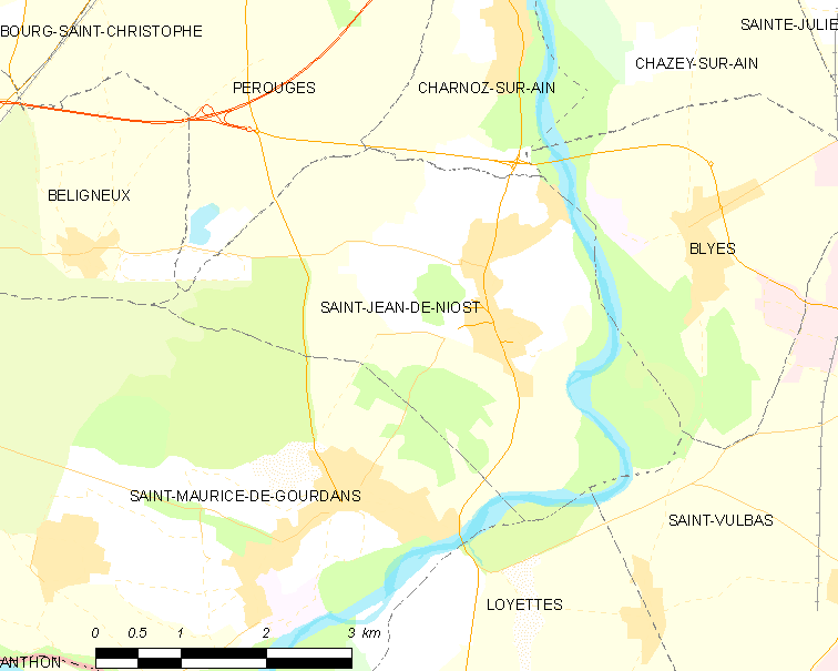 Map of French commune: Saint-Jean-de-Niost Map commune FR insee code 01361.png